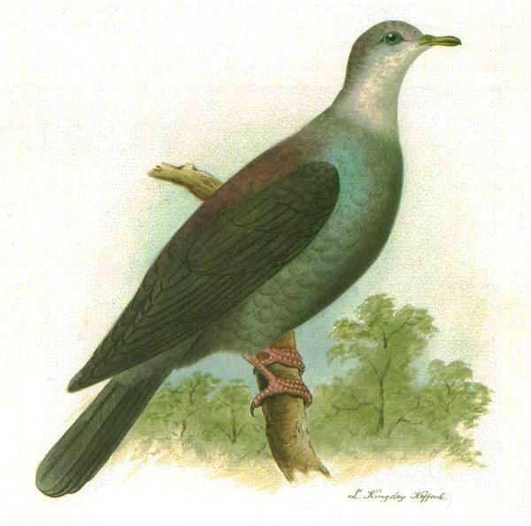 Watercolour by Lydia Kingsley Kefford (c.1900). This is a later reproduction copied from a picture by F.H. Von Kittlitz.